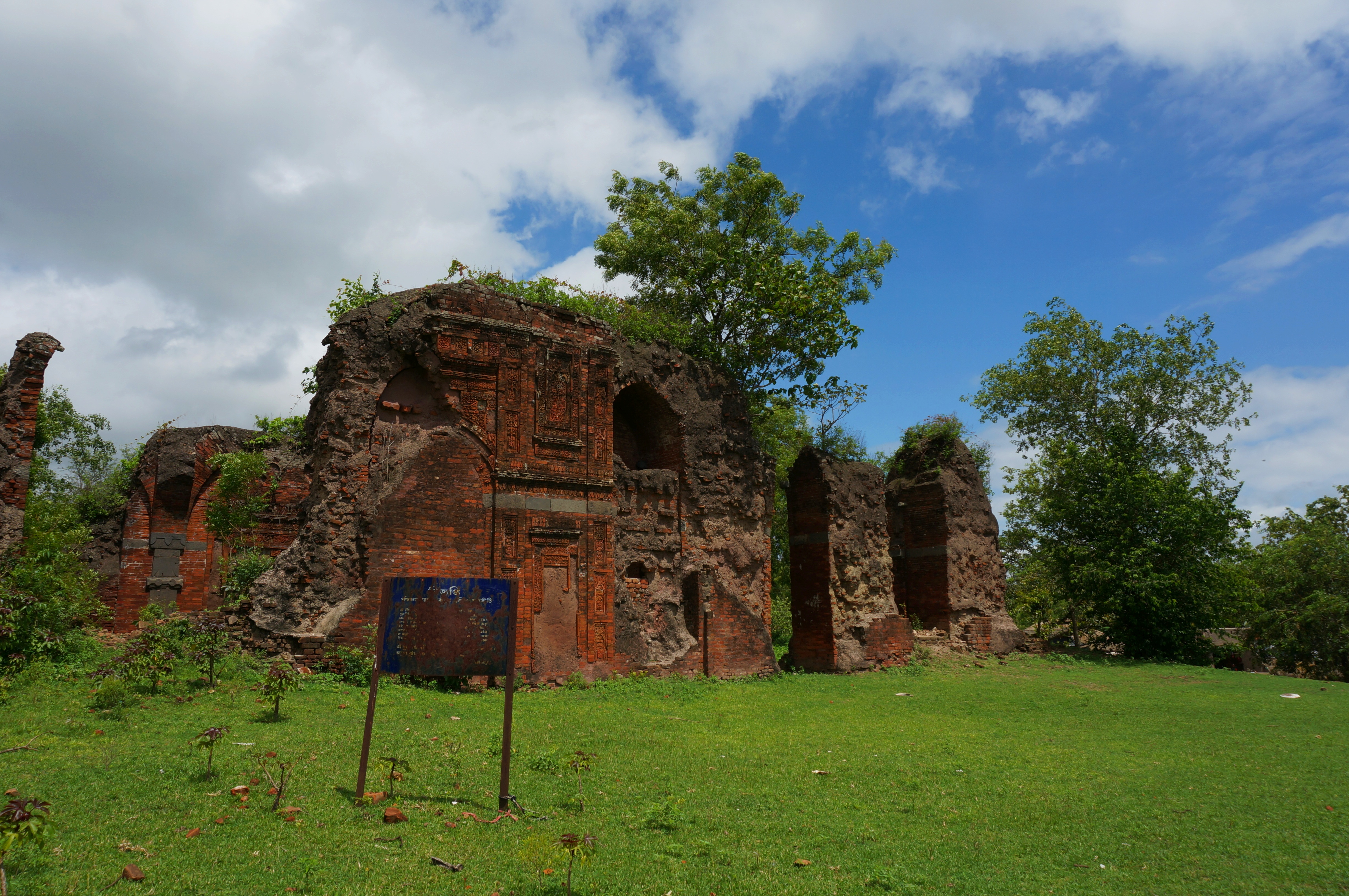 Natunhat’s Husain Shahi Mosque was built in 1510 has only some walls left having exquisite terracotta works